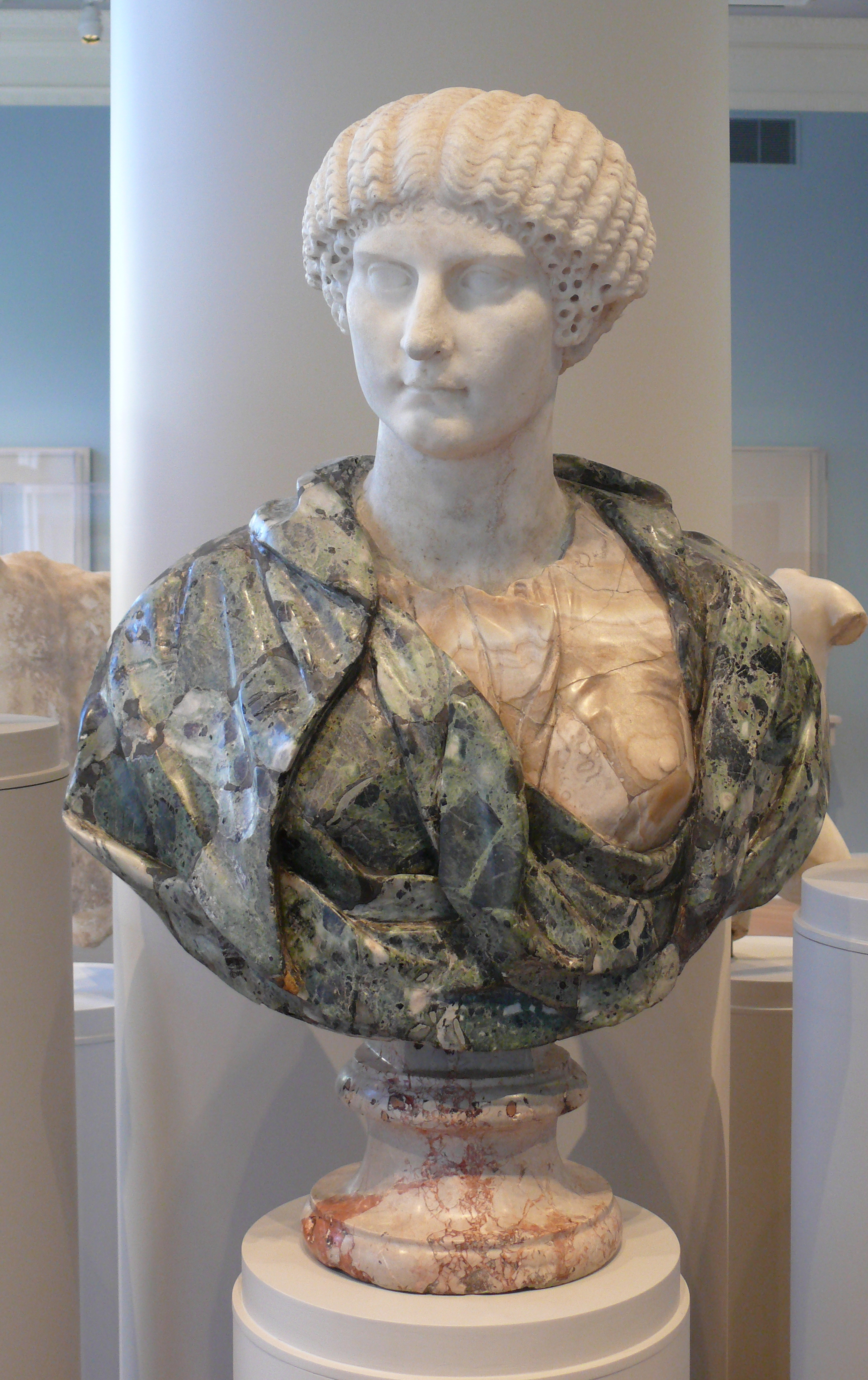 Bust of Agrippina the Younger (Agrippina Minor, Agrippinilla) in the Rhode Island School of Design Museum, Providence, RI. Roman ca. 40 AD Marble from Paros (head), 18th century coloured marble bust Anonymous gift 56.097